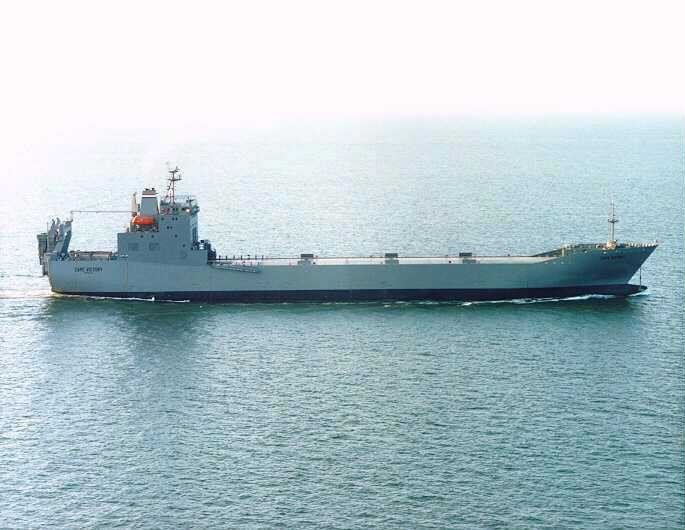 MV Cape Victory (AKR-9701) underway, date and location unknown. US Navy photo.